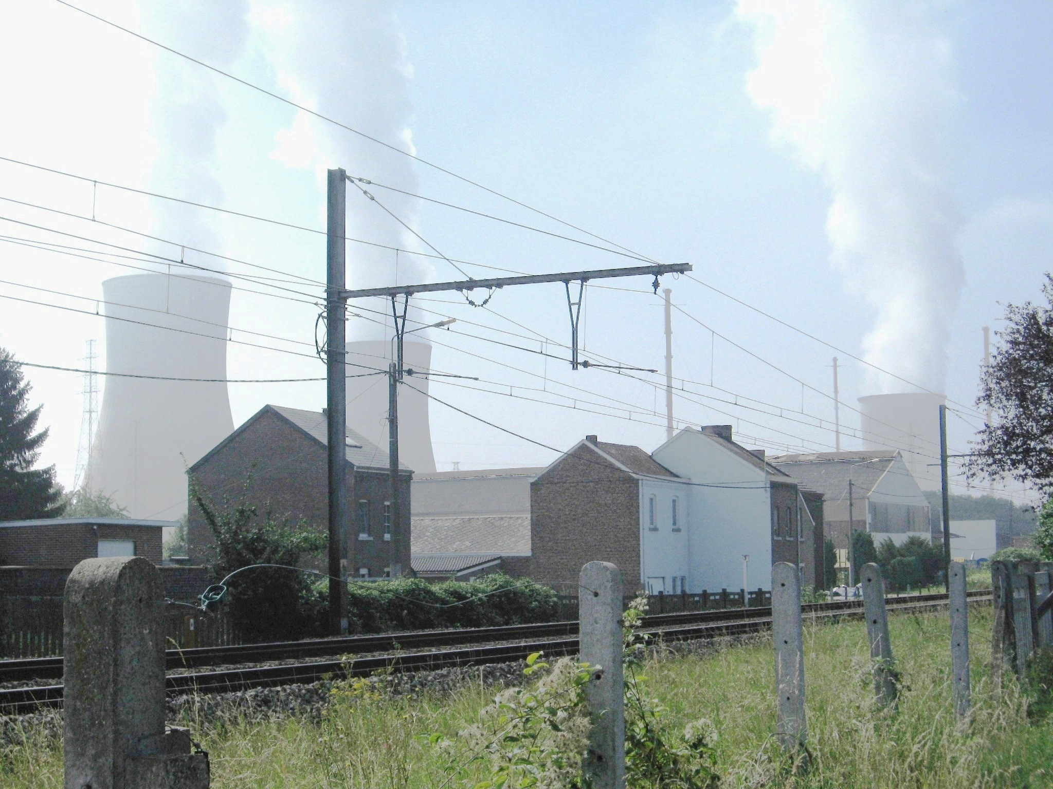 Nuclear power plant of Tihange, Hoei, Liège, Belgium